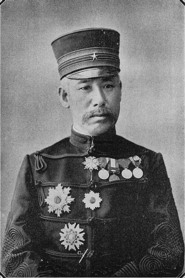 Yamaguchi Motoomi